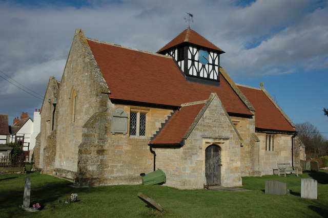 Alstone Church Alstone church is dedicated to St Margaret and dates from the 12th century, though much was what we see today probably dates from the early 17th century.